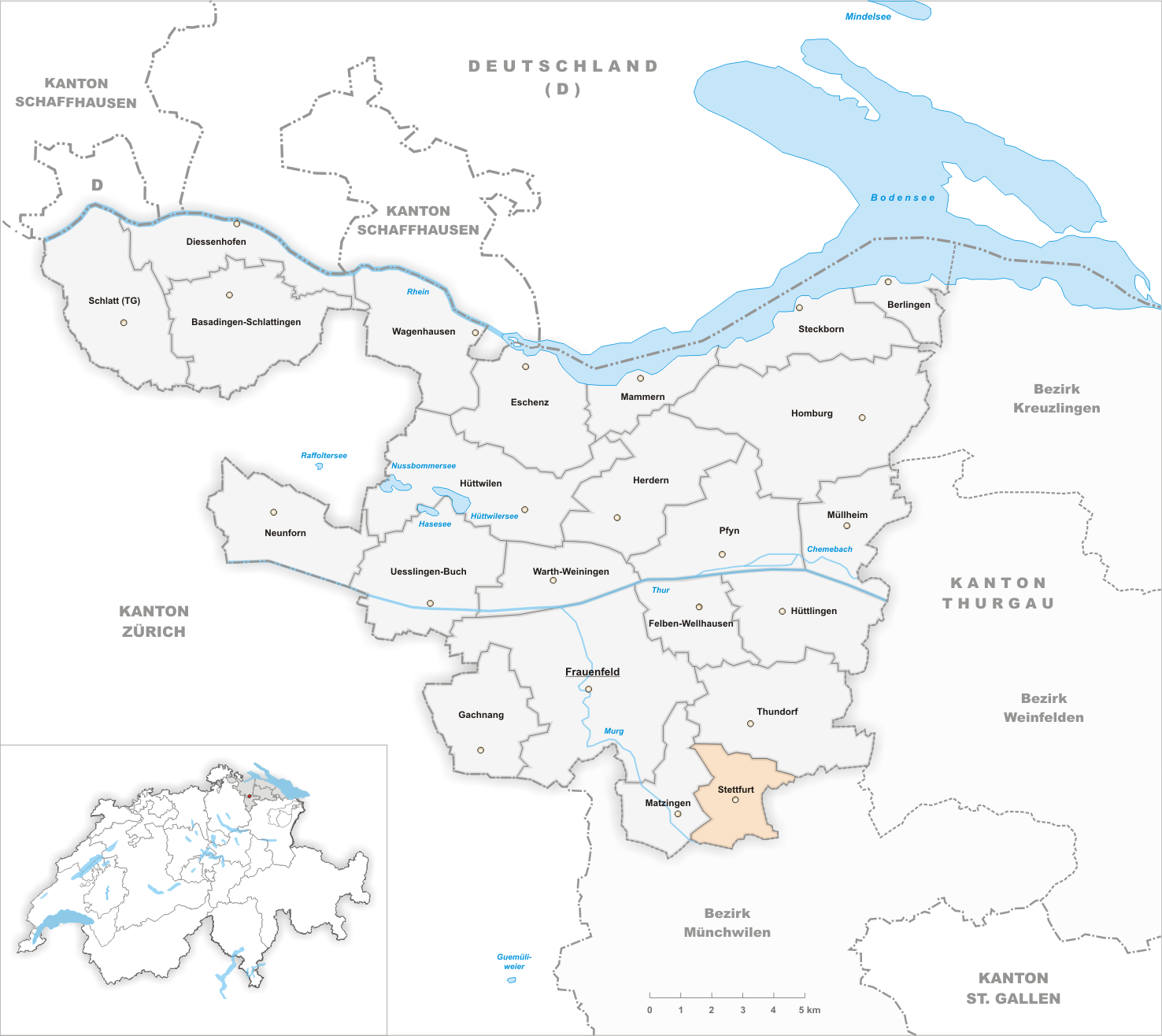 Municipality Stettfurt